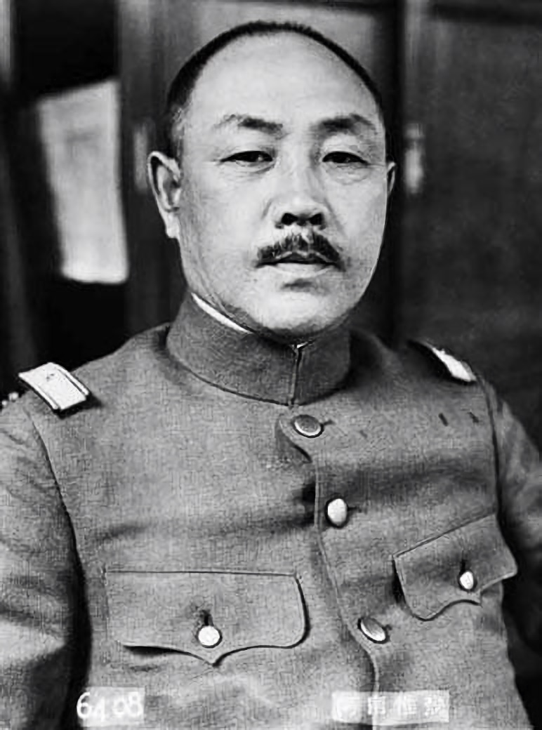 Korechika Anami (1887–1945, War Minister April–August, 1945).